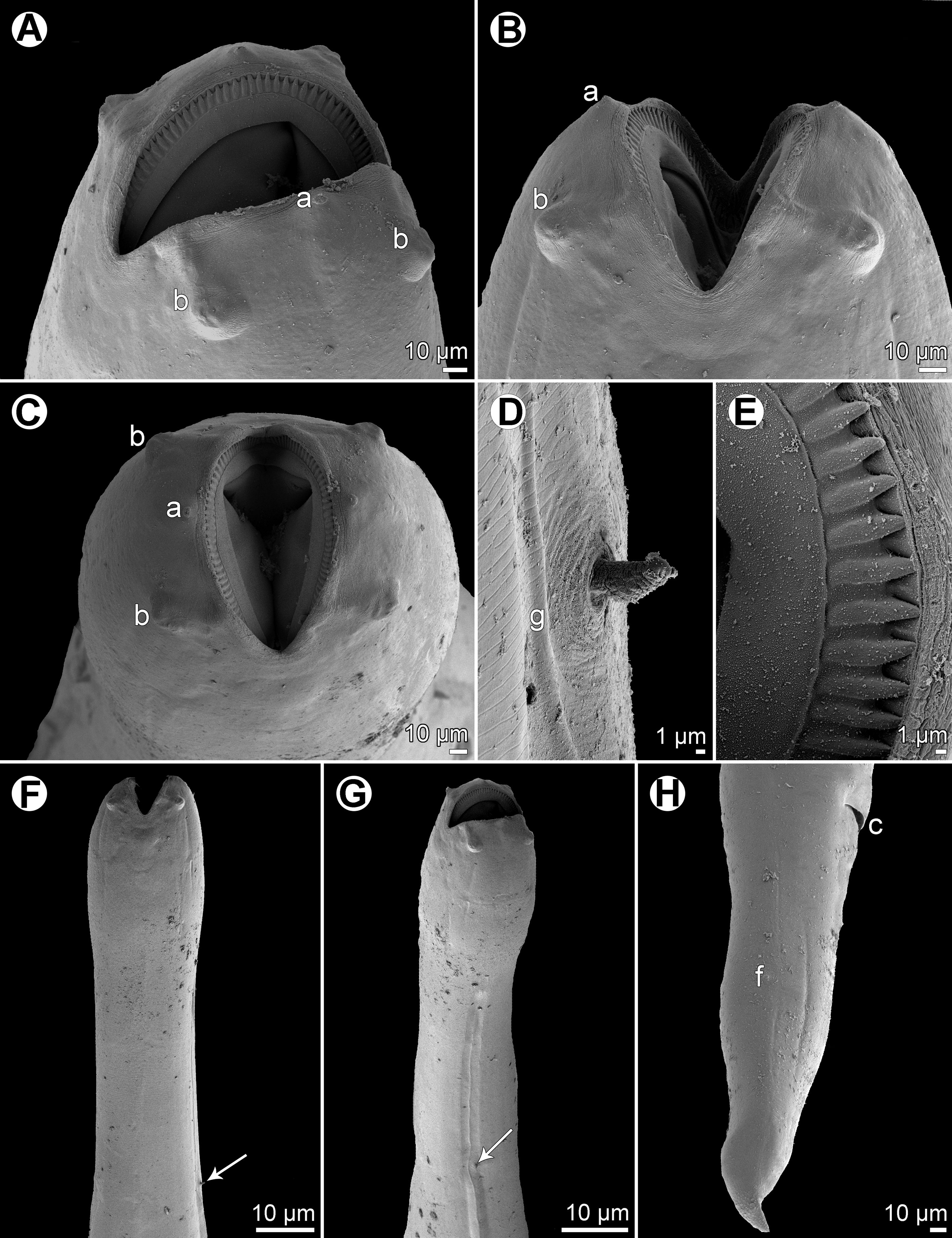 Figure 8 from paper Cucullanus incognitus Moravec & Justine, 2018, scanning electron micrographs of female. (A, B) Cephalic end, sublateral and dorsoventral views, respectively; (C) same, apical view; (D) deirid and cervical ala, sublateral view; (E) cephalic teeth; (F, G) anterior end of body, dorsoventral and sublateral views, respectively (arrows indicate deirids; note cervical alae); (H) tail, lateral view. (a) amphid; (b) cephalic double papilla; (c) anus; (f) phasmid; (g) cervical ala.